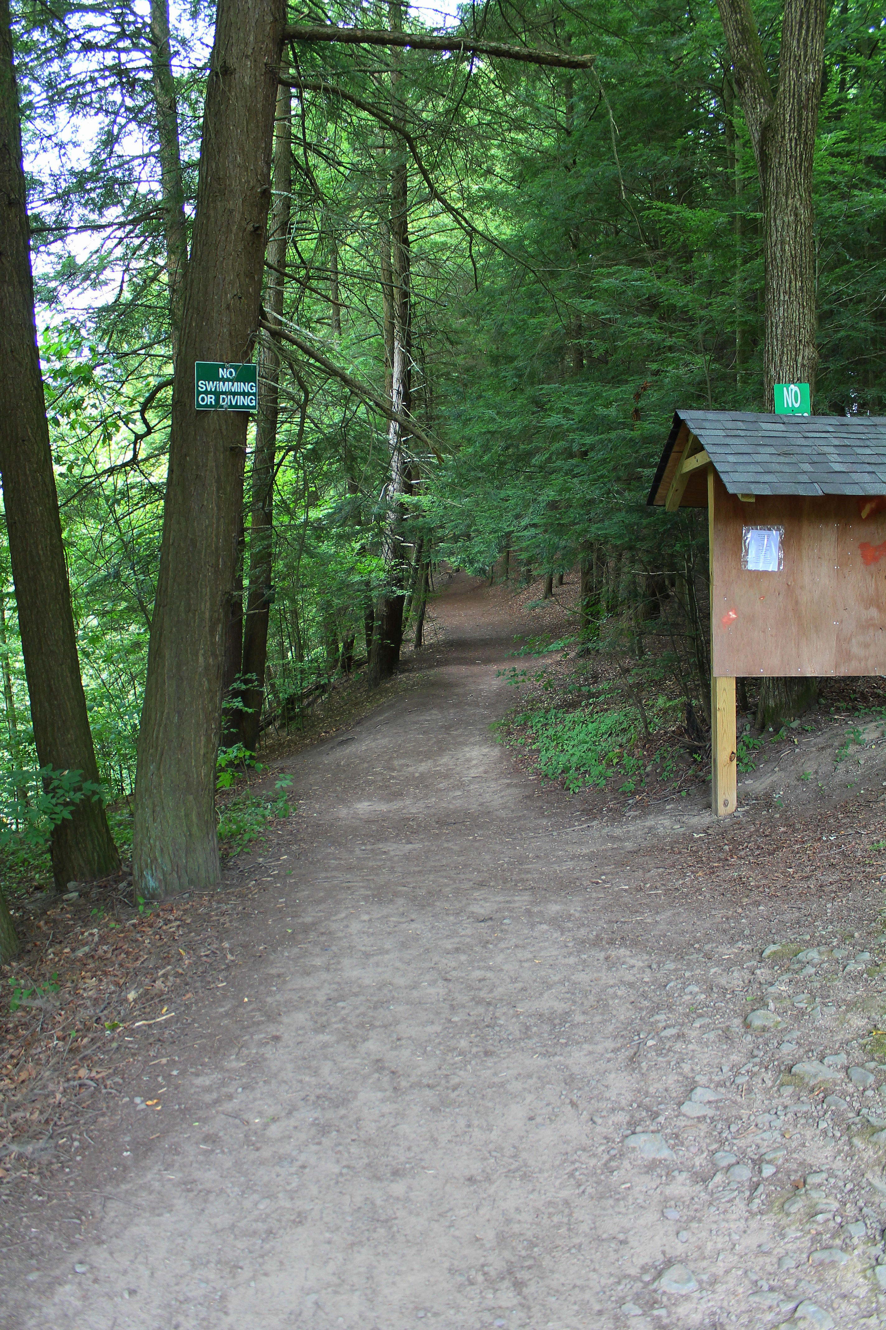 Trail at Little Rocky Glen, near South Branch Tunkhannock Creek, in Clinton Township, Wyoming County, Pennsylvania